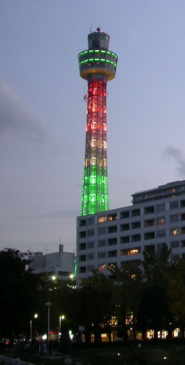 Photographed from Yamashita Park near the pier of the Hikawa Maru. Tower appears slightly tilted, apparently due to lens distortion and its position in the left field.